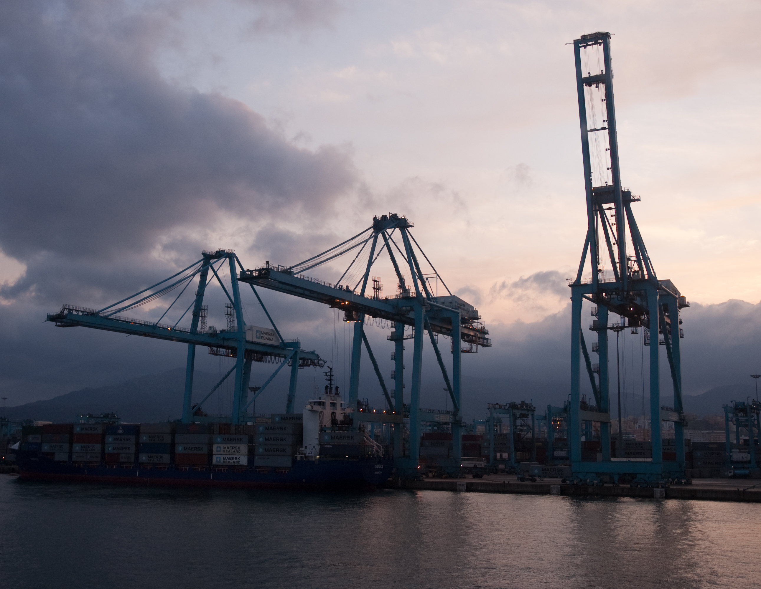 Cranes in the Port of Algeciras